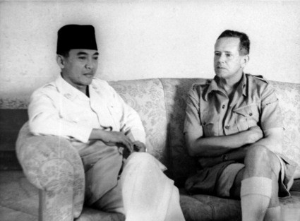 Indonesia: Yogyakarta. Sukarno, future President of Indonesia, talking to Charles Eaton, the acting Australian Consul-General. Donor C Eaton.